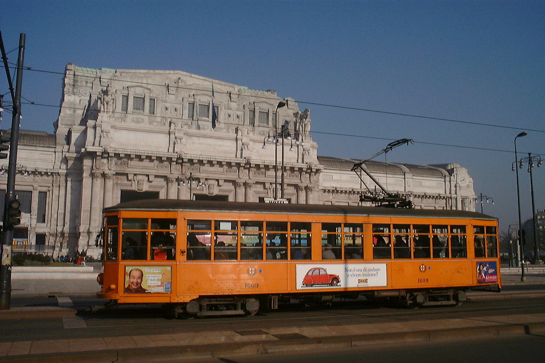 Peter Witt tram in Milan.